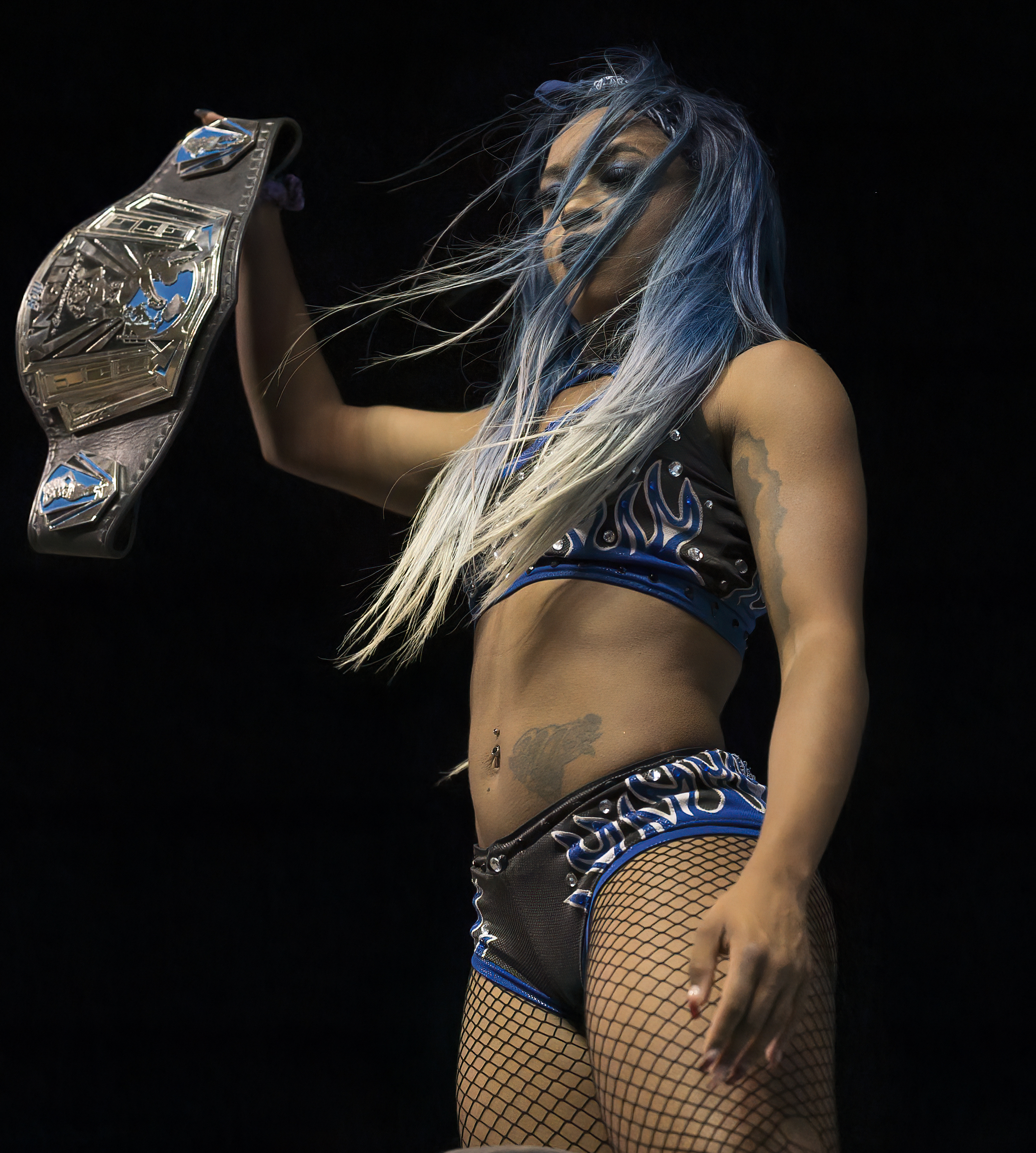 RCW River City Wrestling & World Class Rev United We Stand 2 - Sept. 27, 2019 in San Antonio, Texas at Retama Park